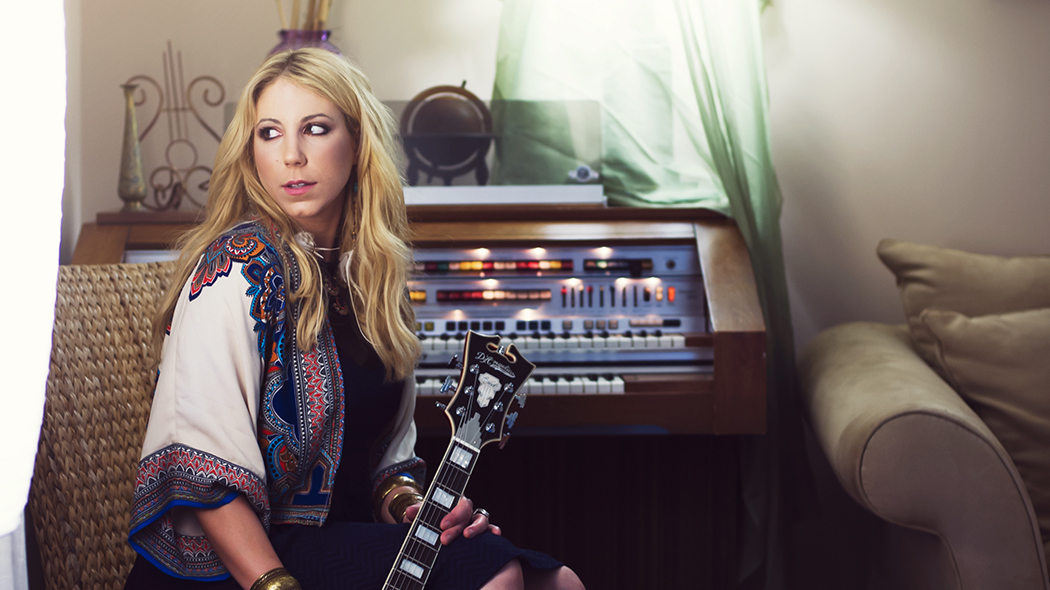 Singer/songwriter Elise Testone in the studio.